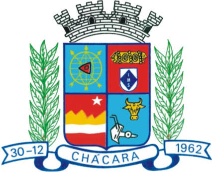 Coat of arms of the city of Chácara, Minas Gerais, Brazil.